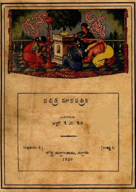 This is the cover page of monthly magazine Gruhalakshmi